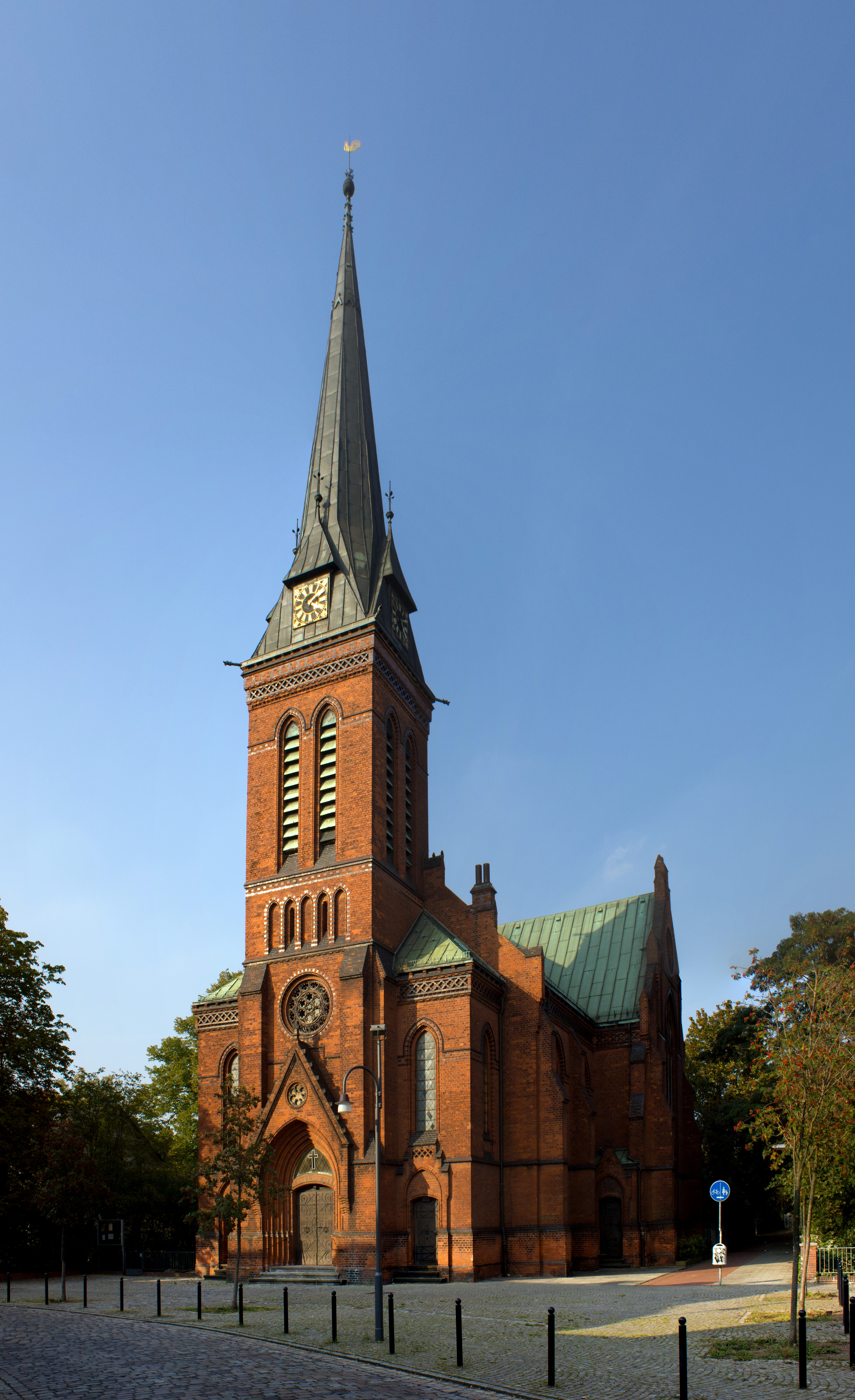 Lutheran Hemelingen Church in Bremen-Hemelingen, Germany